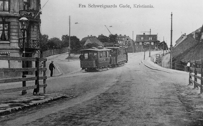 Kristiania Sporveisselskab Class U and trailer no. 73 tram at the intersection of Schweigaards gate and St. Halvards gateNorsk bokmål: Grønntrikk. Trikk tilhenger 73 type hestesporvogn og motorvogn type U ved krysset Schweigaards gate - St. Halvards gate on the Vålerenga Line